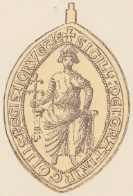 Seal of King Inge II Bårdsson of Norway. Text: "✠ SIGILLvm : DEI : GRATIA : INGONIS : REGIS : NORWEGIE". Size: 57 x 40 mm.